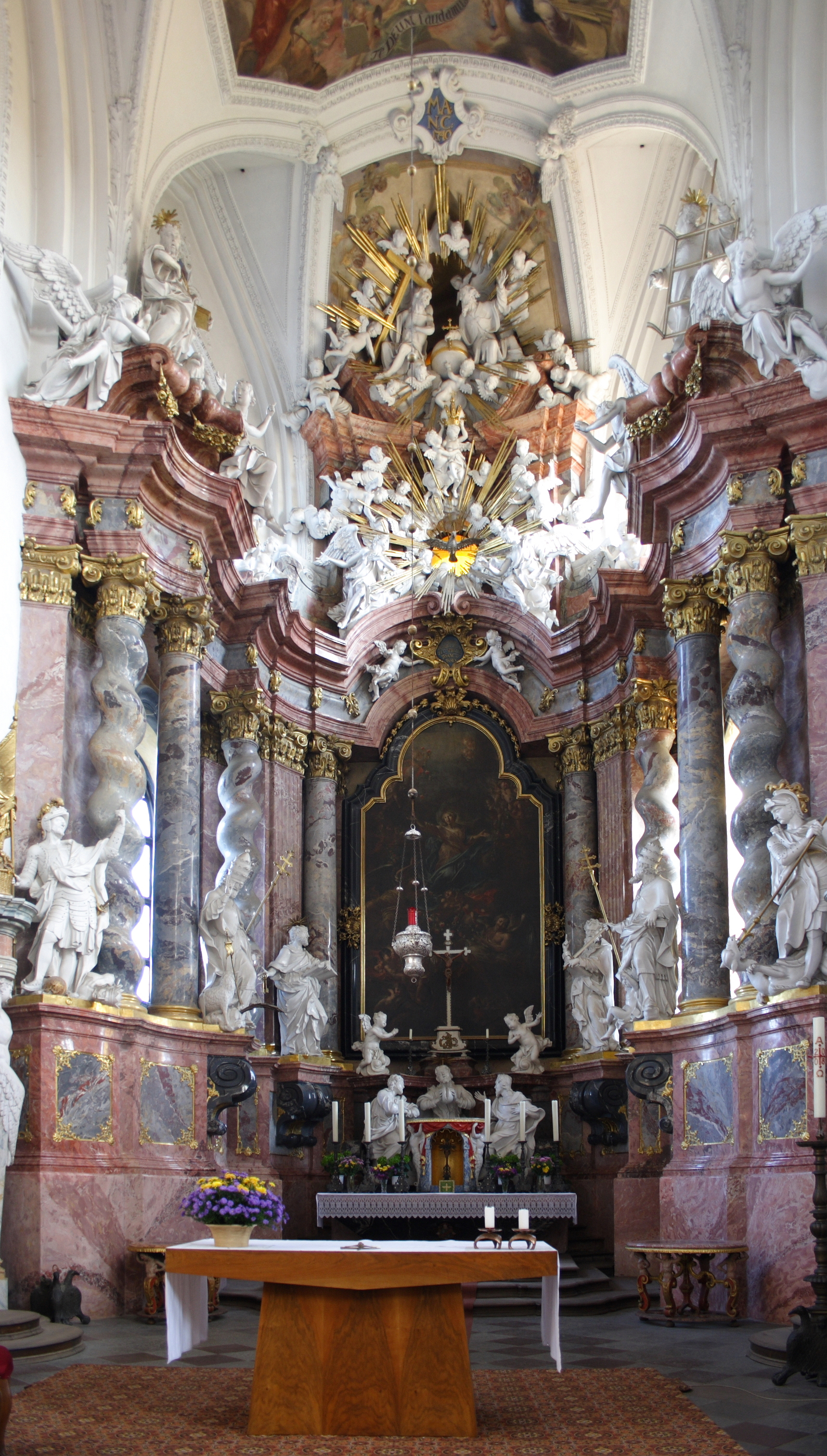 High altar of Neuzelle abbey church.